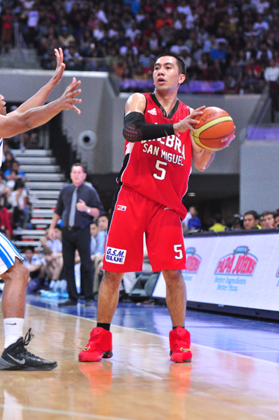 LA Tenorio